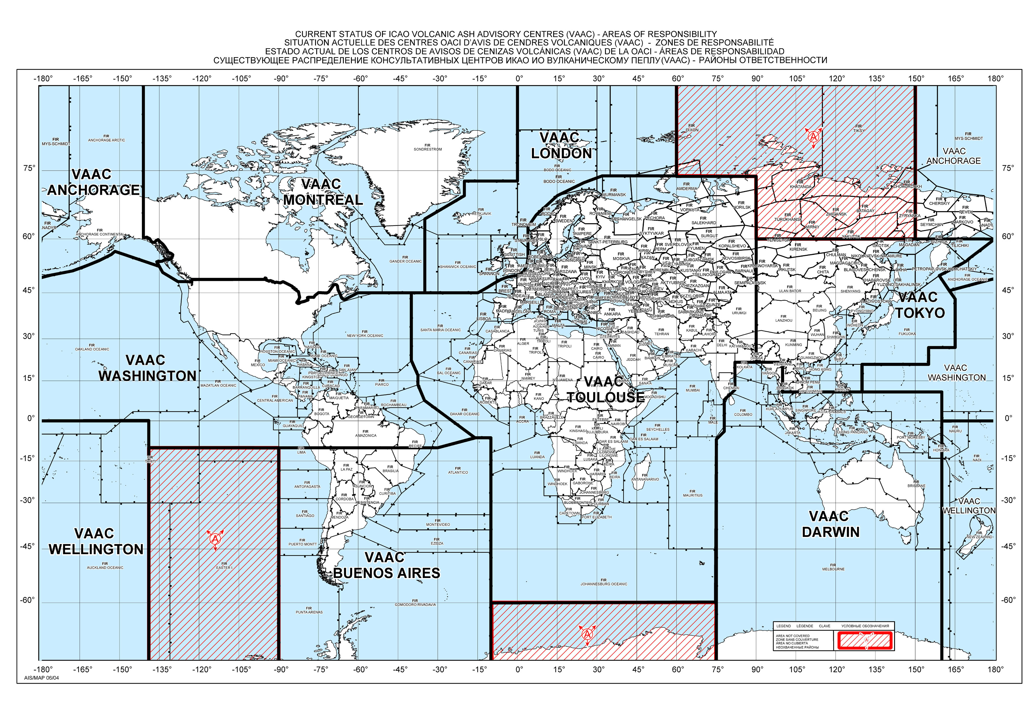 Map showing the coverage of the nine worldwide Volcanic Ash Advisory Centers